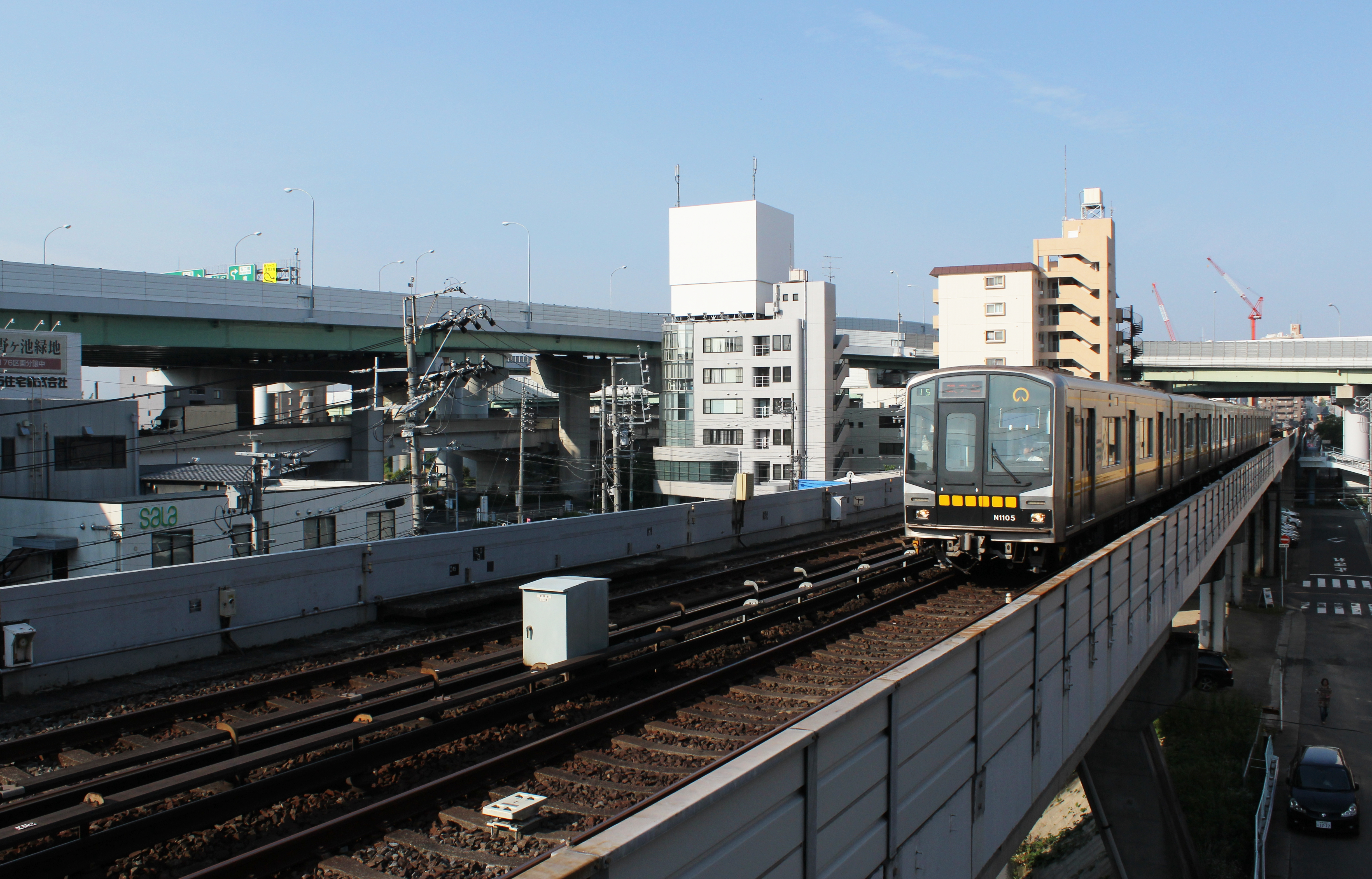 Nagoya Municipal Subway N1000 series EMU N1105 on the Higashiyama Line